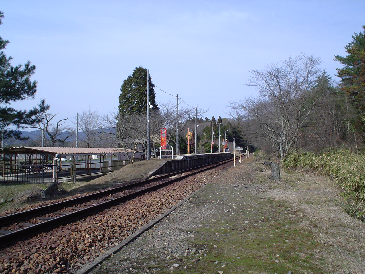 Kumoi Station in Siga pref, Japan信楽高原鐵道信楽線雲井駅 ホーム画像